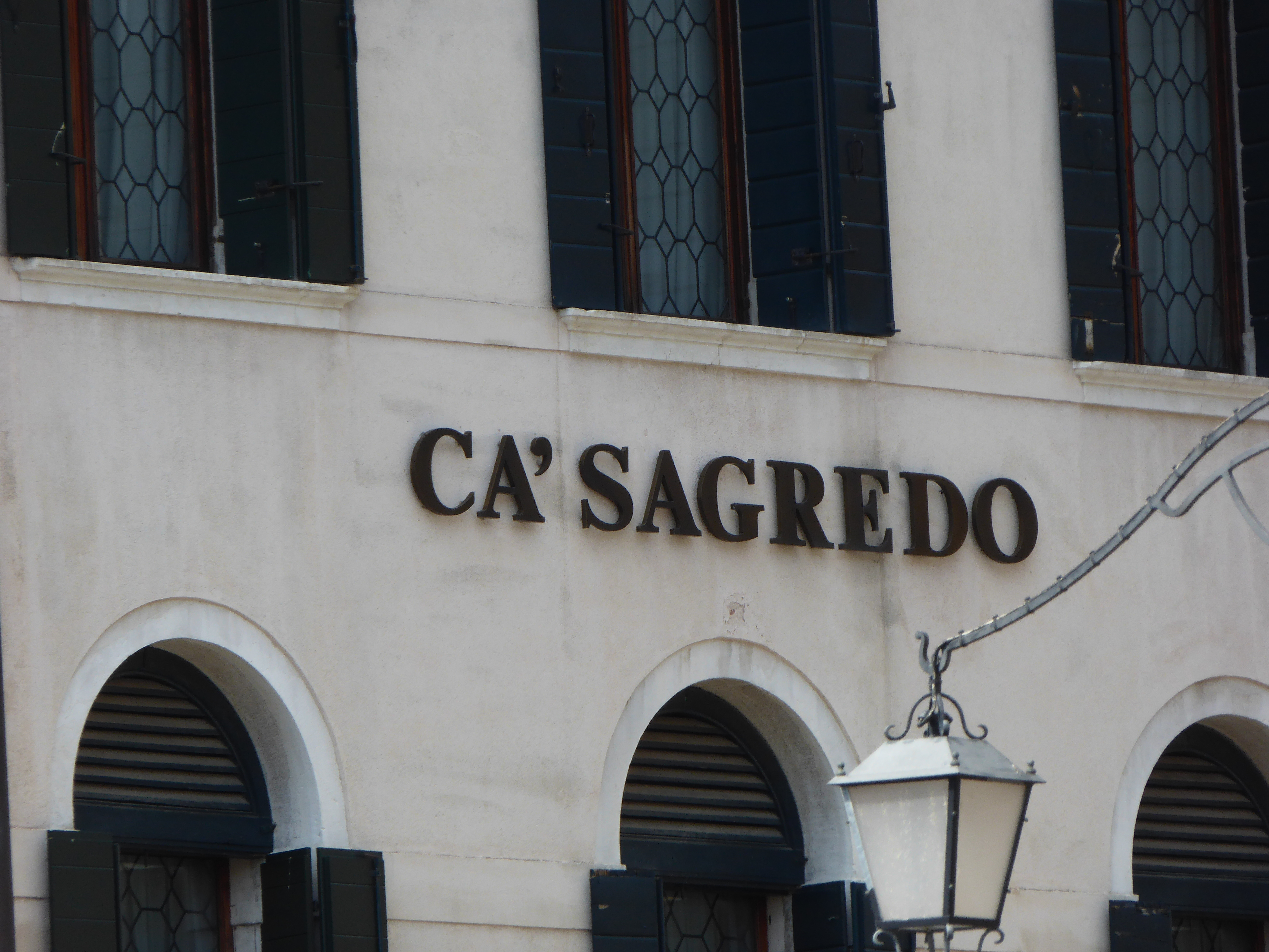 Palazzo Sagredo (Venice)